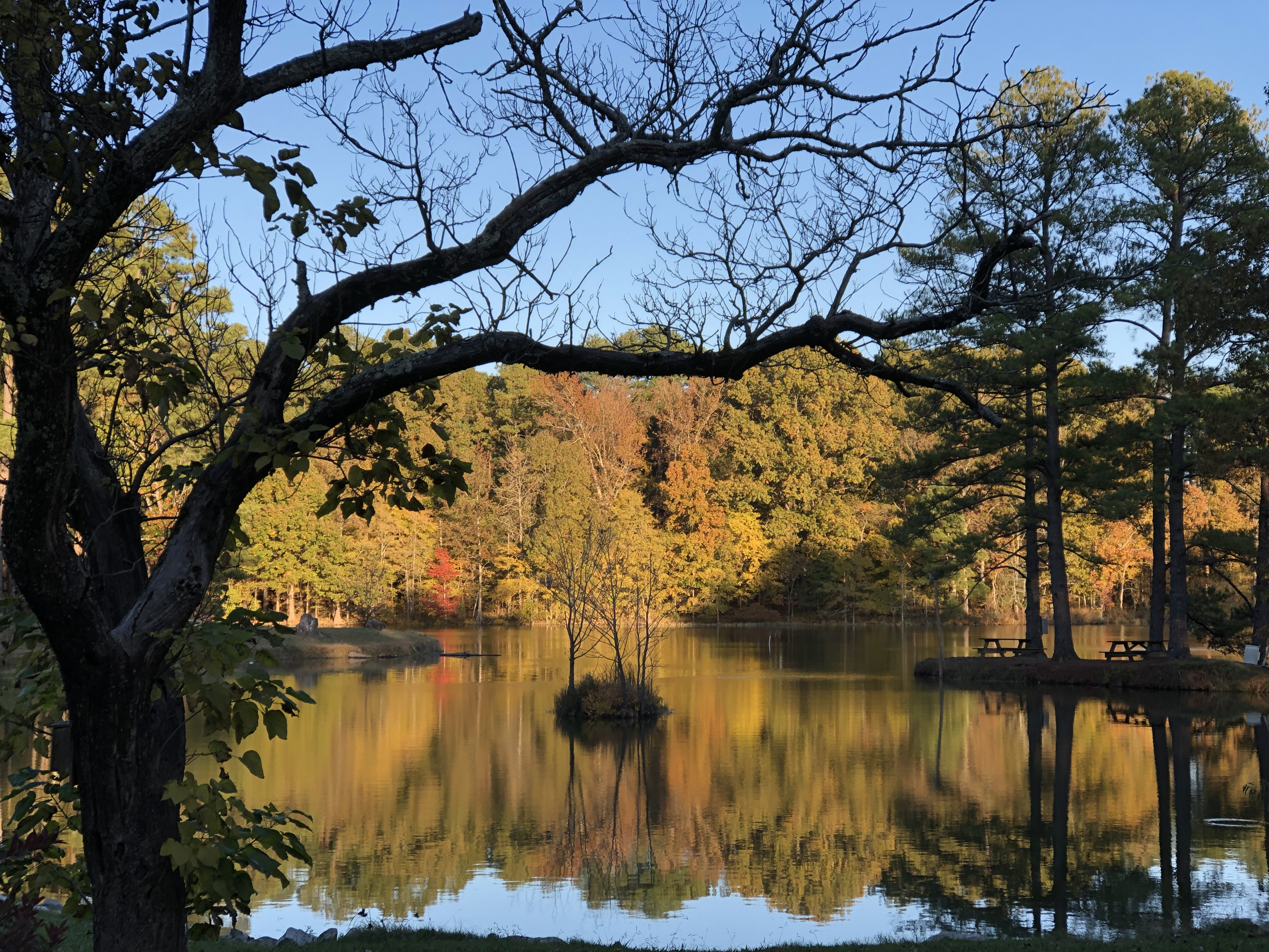 A picture of Herb Parsons Lake in November.